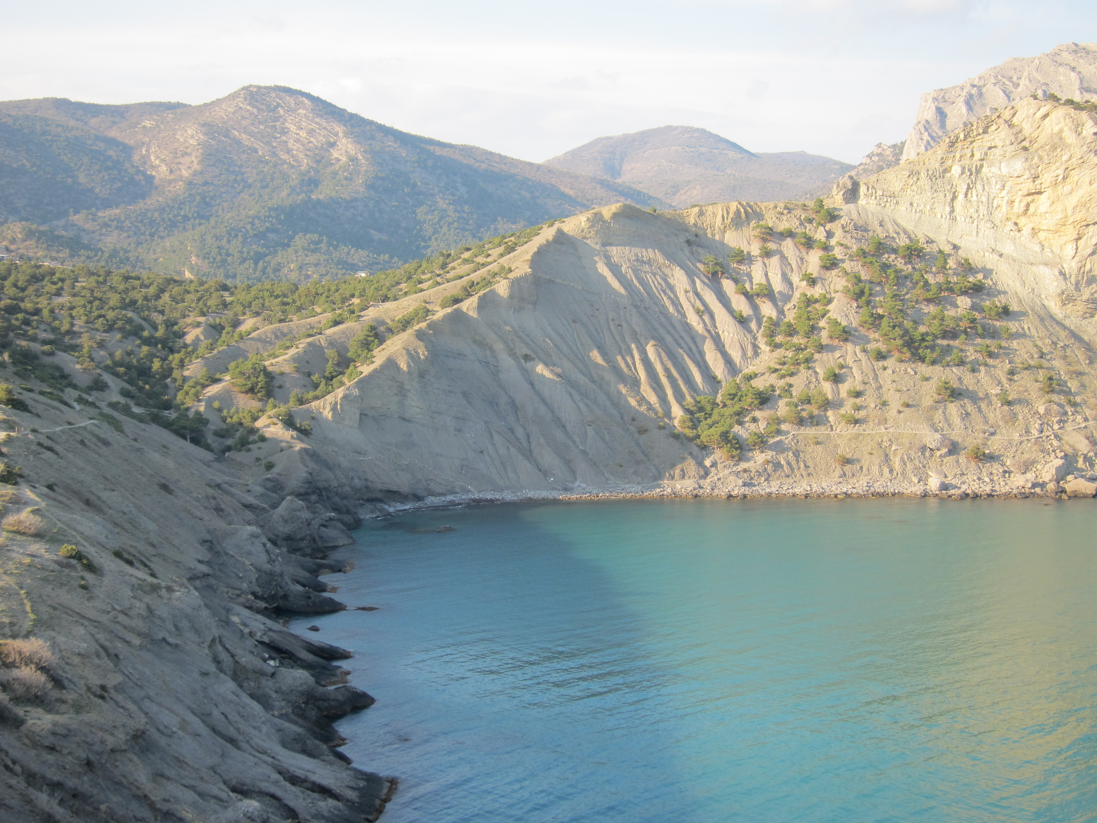 Novyi Svit, Crimea, Ukraine. Sinya Bookhta (Blue bay)